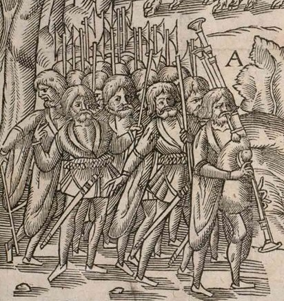 Irish war-pipers. Image is a cut-out from a plate originally from The Image of Irelande, by John Derrick, published in 1581.